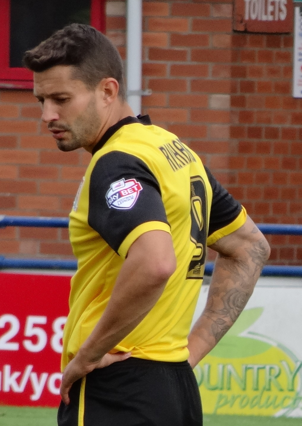 Marc Richards playing for Northampton Town against York City at Bootham Crescent, York on 16 August 2014